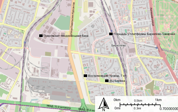 Moscow birulevo 2013